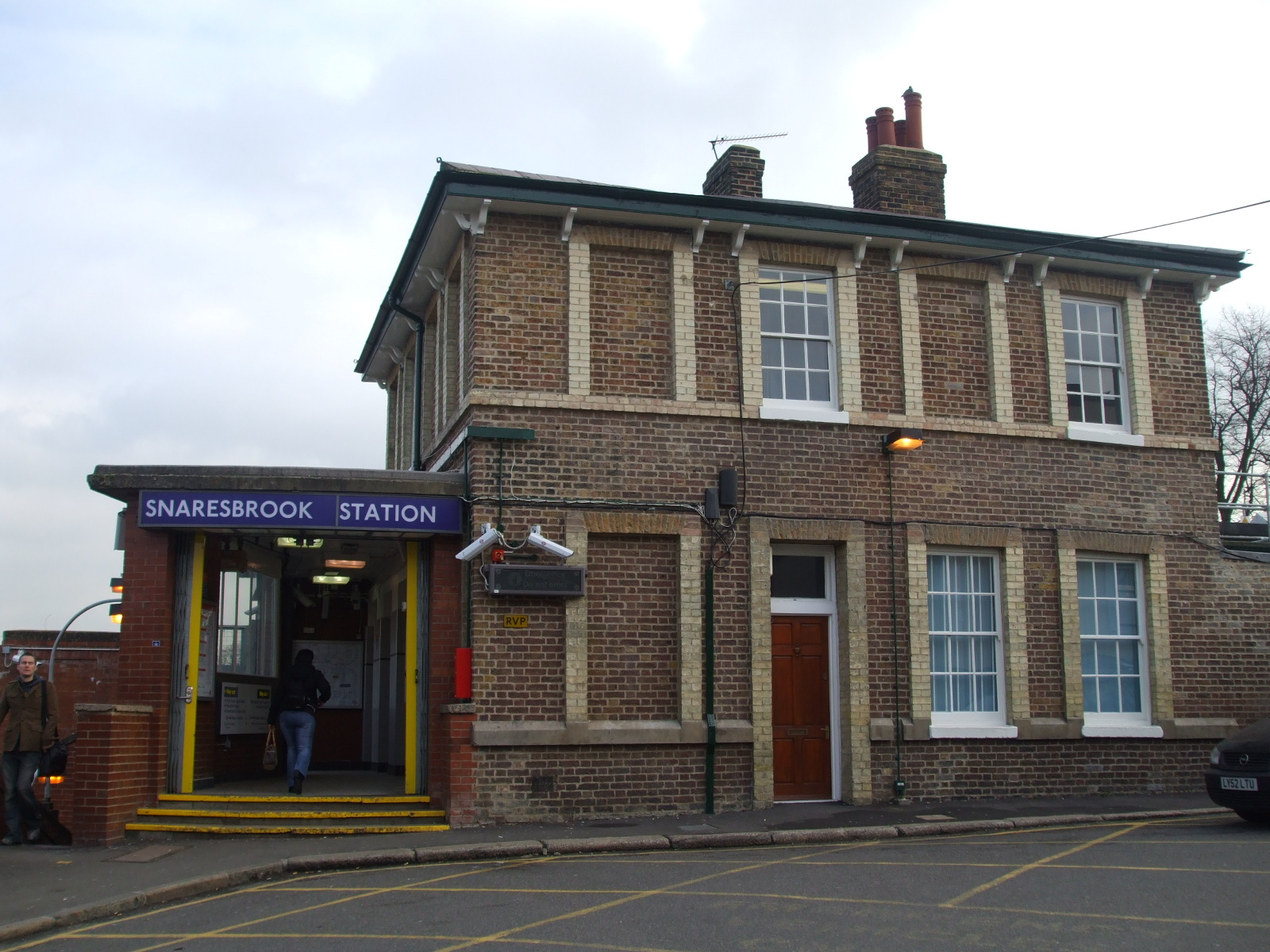 Snaresbrook tube station main entrance